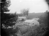 Dolwar Fach, birth place of Ann Griffiths